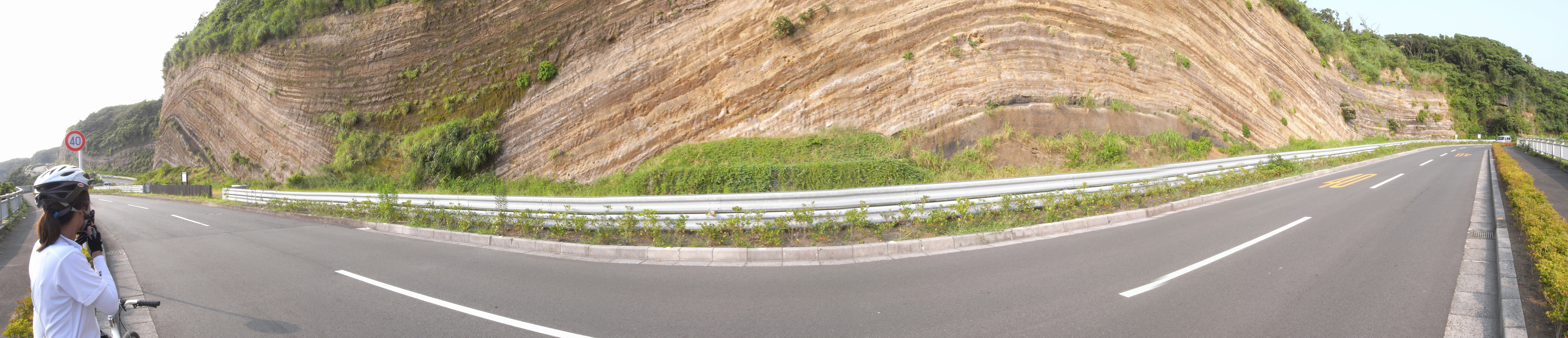 Volcanic ash-fall layers on Izu Oshima volcano in Japan. The volcanic ash was erupted into the air by the volcano. The ash then fell back onto ground. The ash was deposited during Pleistocene and Holocene times on an uneven ground surface. The ash layers are parallel to the curvature of the underlying ground surface. The folds are known as drape folds. The ash layers have not been folded after deposition. (The road at this location is straight but the road appears curved in this photo, which is a distortion caused by a full-frame fisheye lens setting of the camera.)